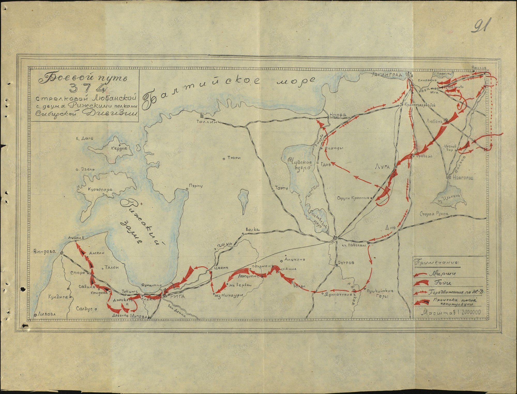 A sketch of the combat path of the 374th Rifle Division taken from the divisional history. 374th Rifle Division (Soviet Union).